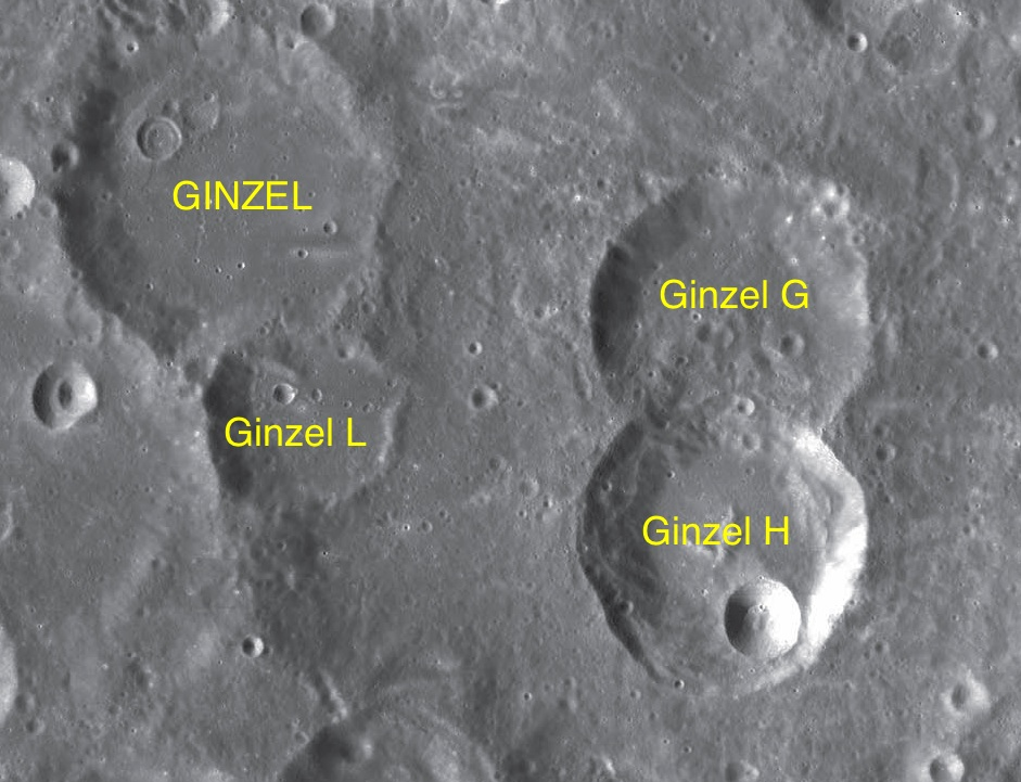 Part of the chart LAC-64 used for the presentation